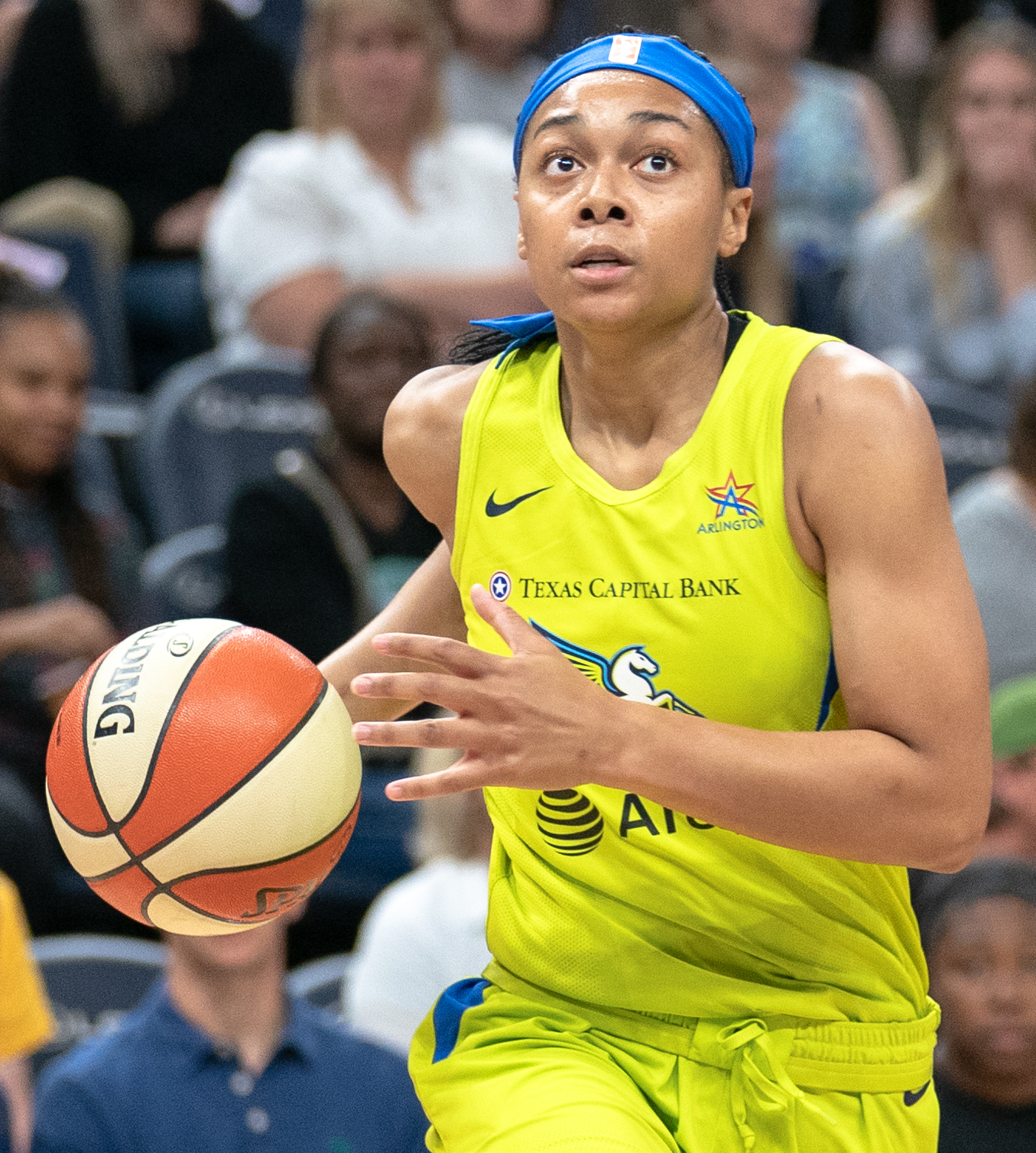 Dallas Wings player Allisha Gray in a game against the Minnesota Lynx